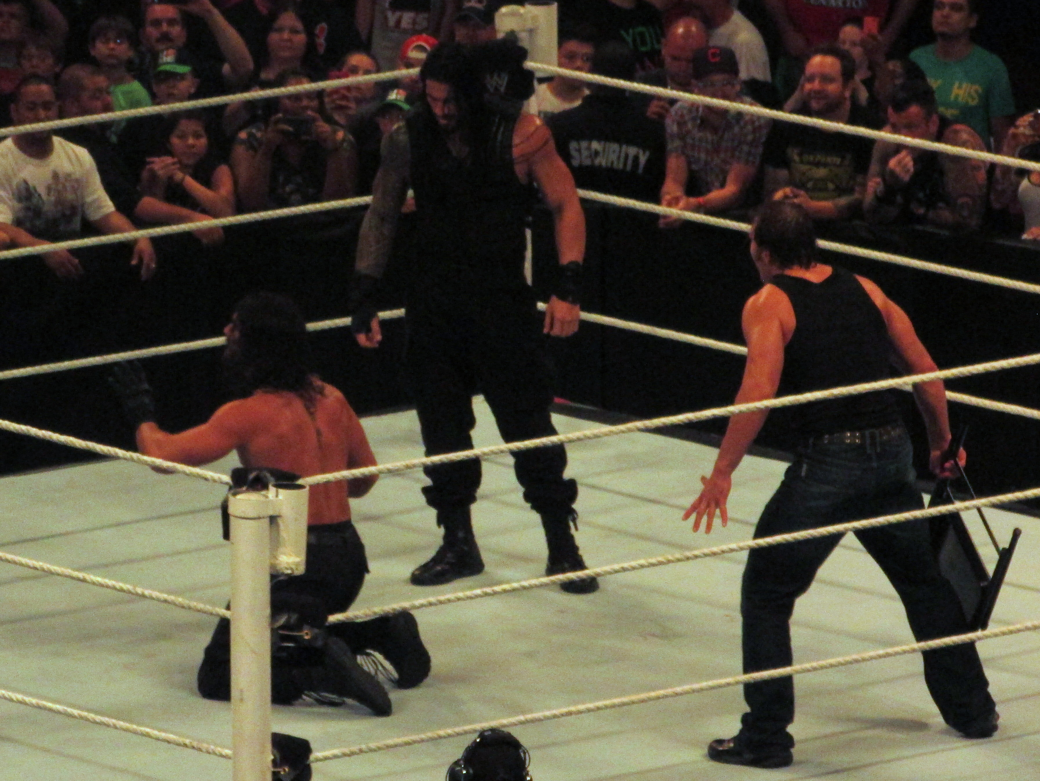 Dean Ambrose (right), with a steel chair, and Roman Reigns confronting Seth Rollins (on his knees) on the June 16, 2014. Cropped from original and auto-contrast and auto-colour applied.